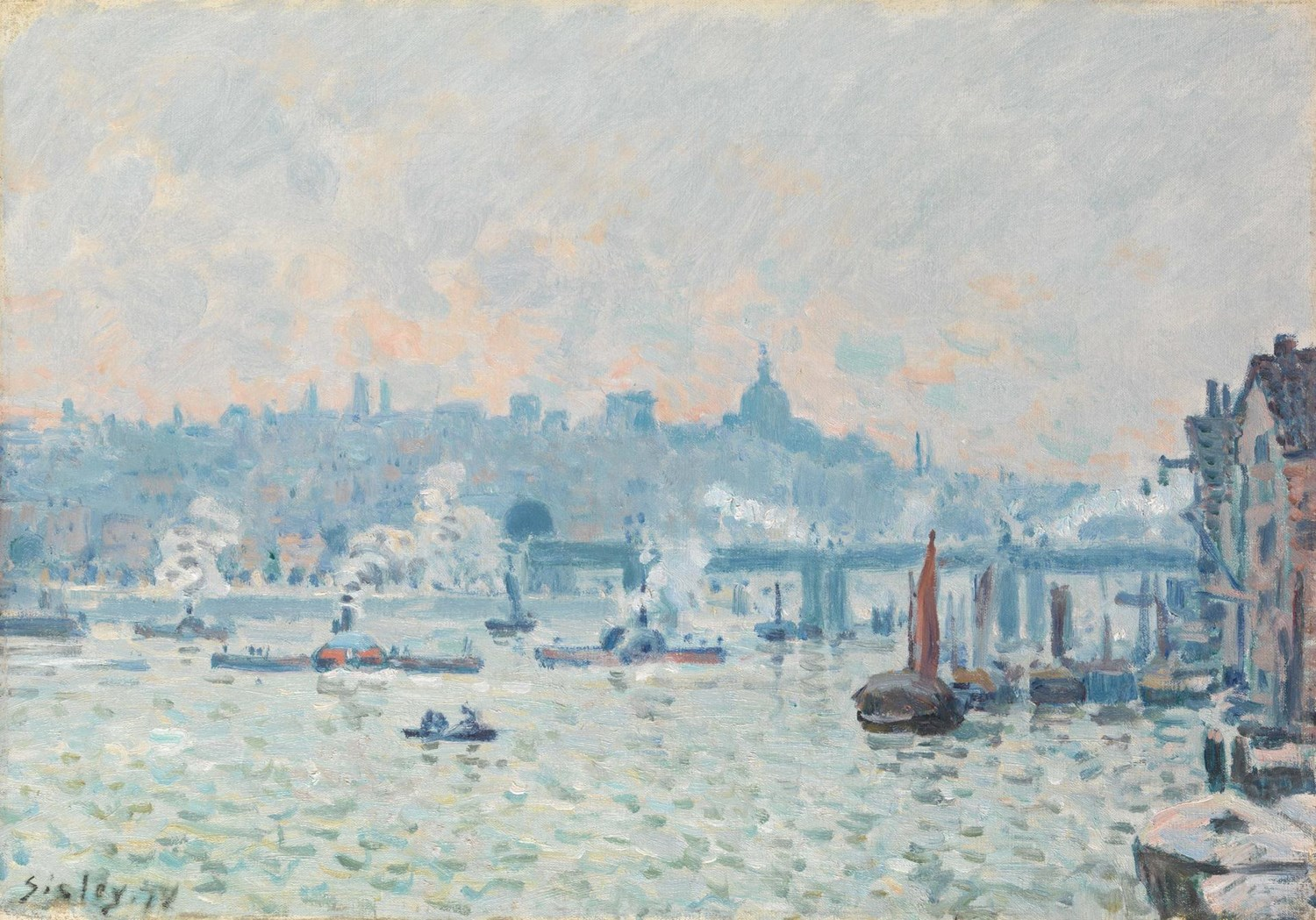 Alfred Sisley - Charing Cross Bridge - National Gallery London. Oil on canvas, 33 × 46 cm, Inventory number L986